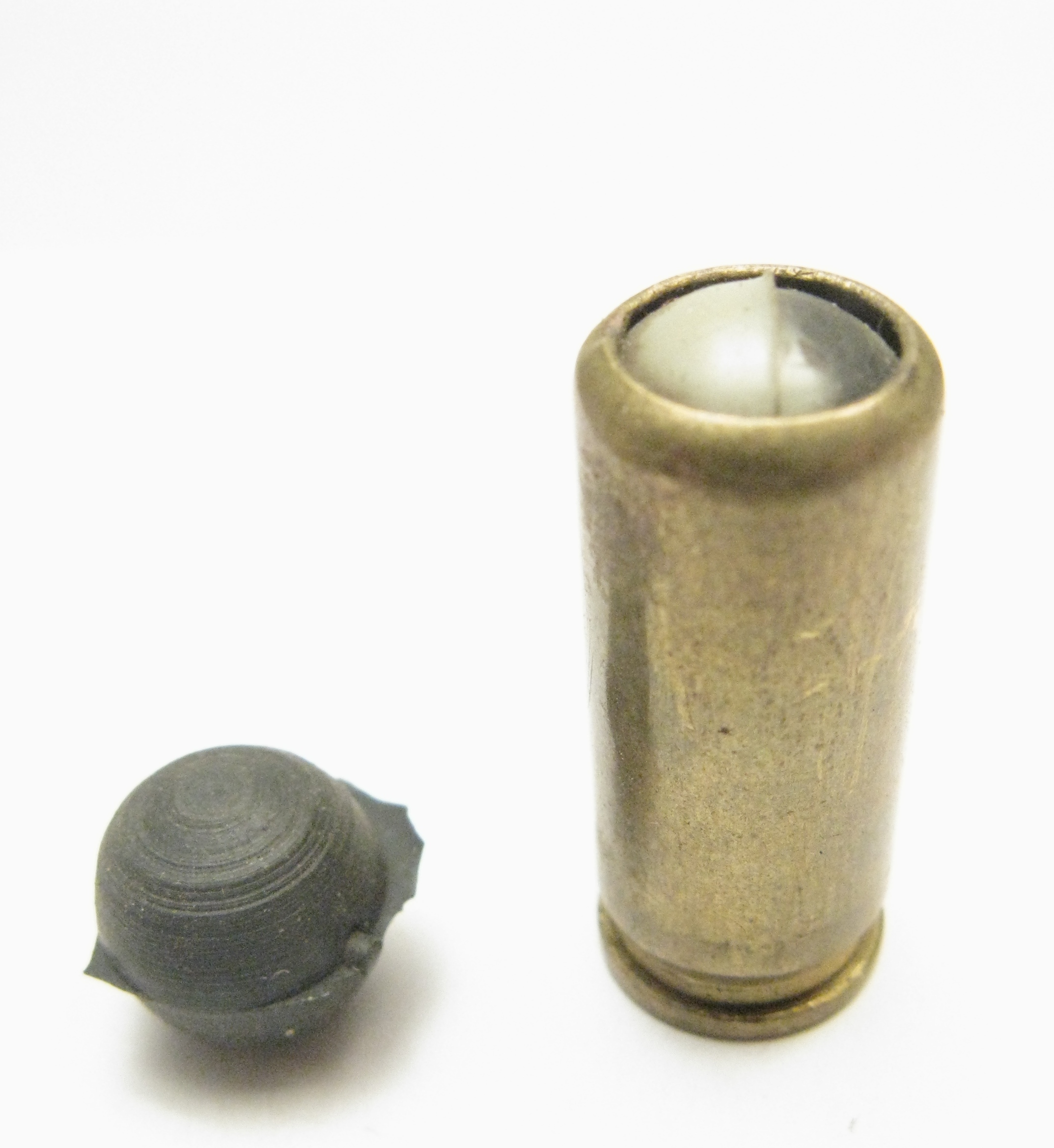 9 mm apart and a rubber bullet in the cartridge.